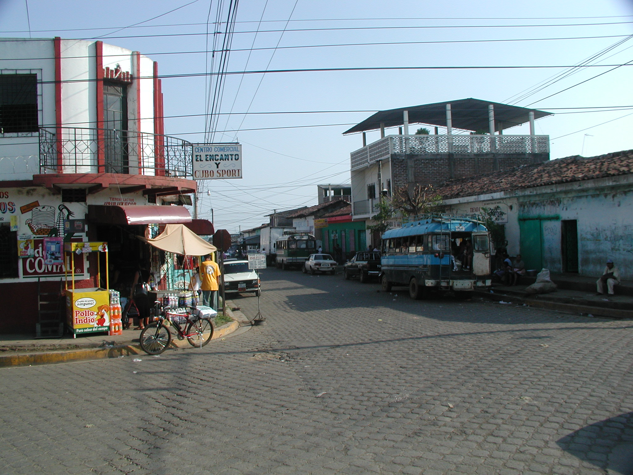 Typical Street scene in Usulután, El Salvador. Photo taken by Ichabod, April 2003.